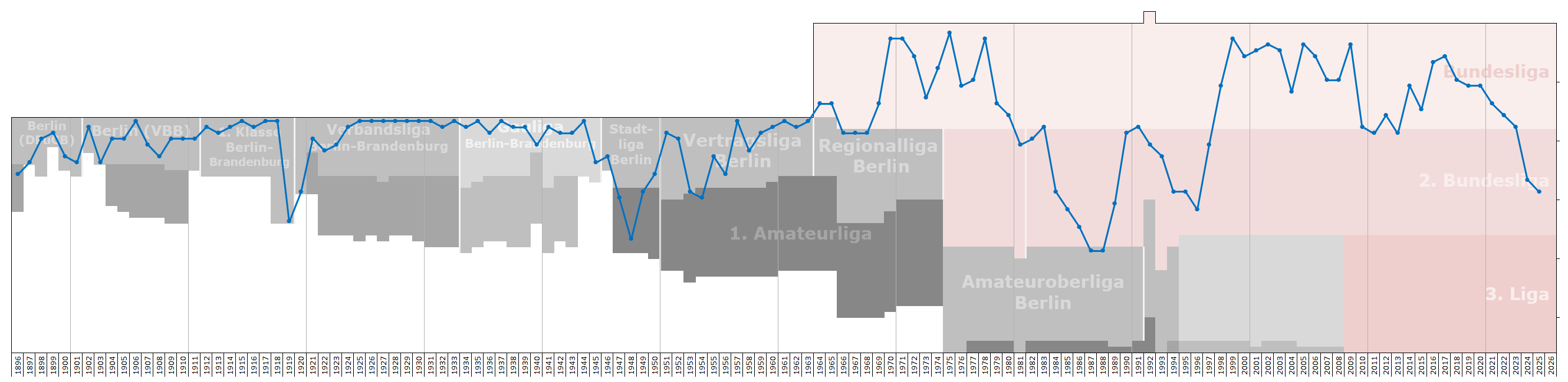 Chart of end-season table positions of Hertha BSC in the football league system of Germany. Data source: RSSSF, wikipedia, f-archiv.de, fussball.de